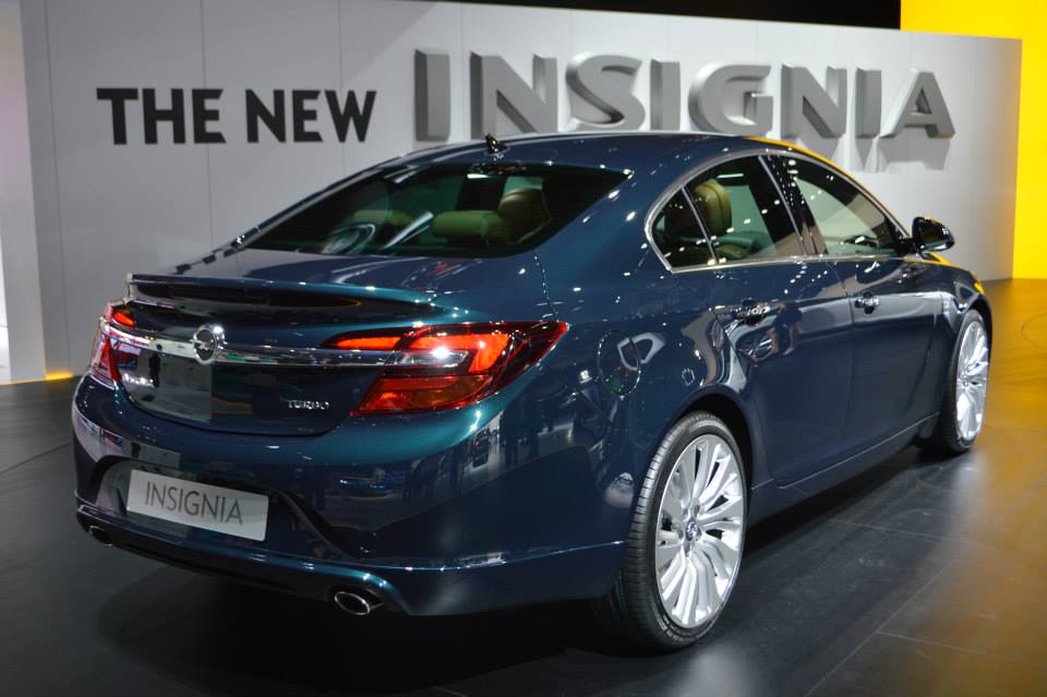 Opel Insignia